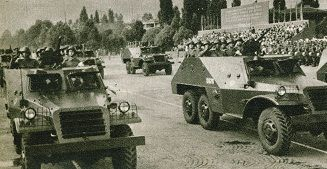 BTR-152 APCs during a military parade of the Romanian Army in the 1960s.